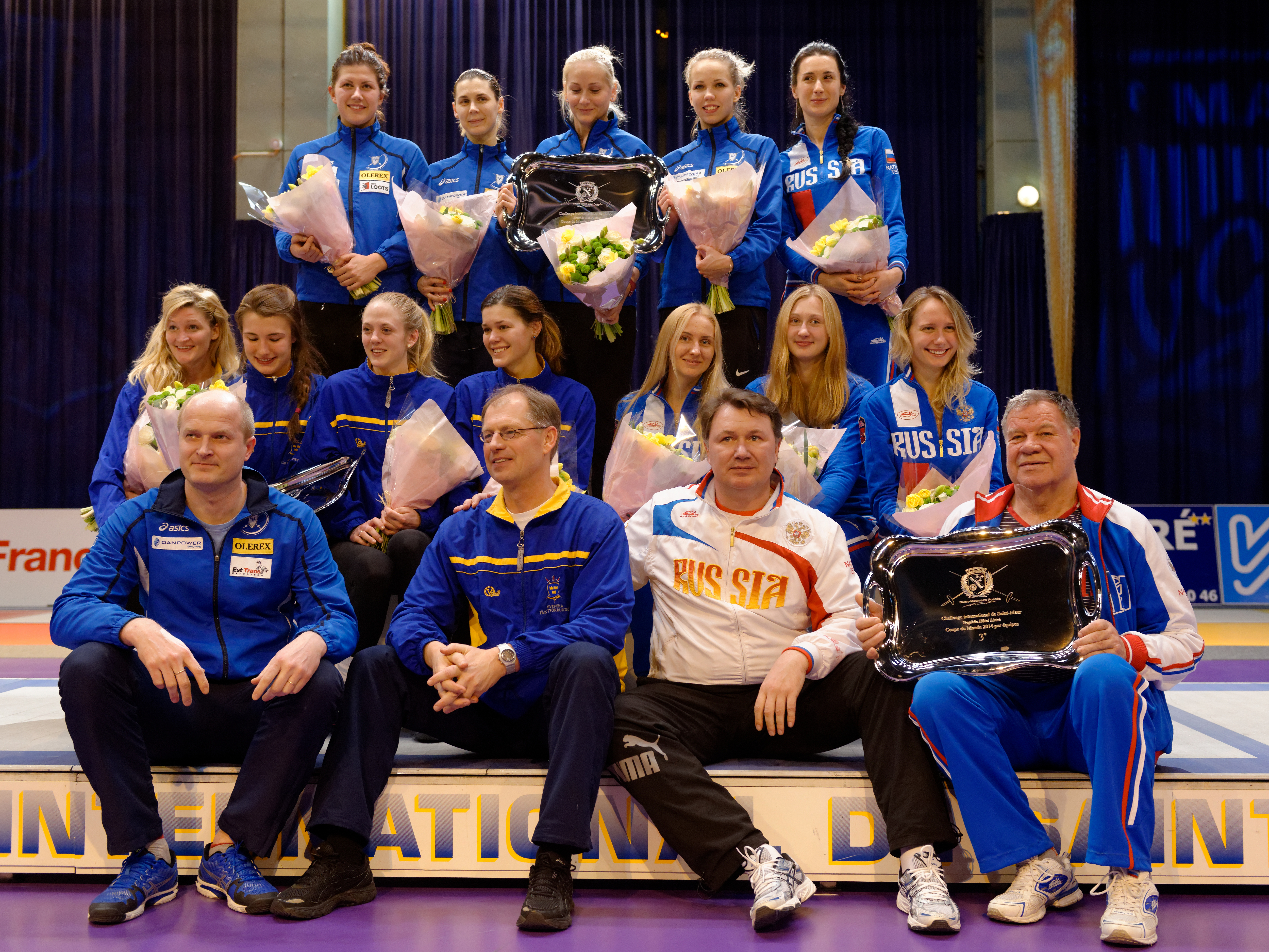 Estonia, Russia, and Sweden pose with their coaches on the podium at the 2014 Challenge International de Saint-Maur, a women's épée World Cup event.